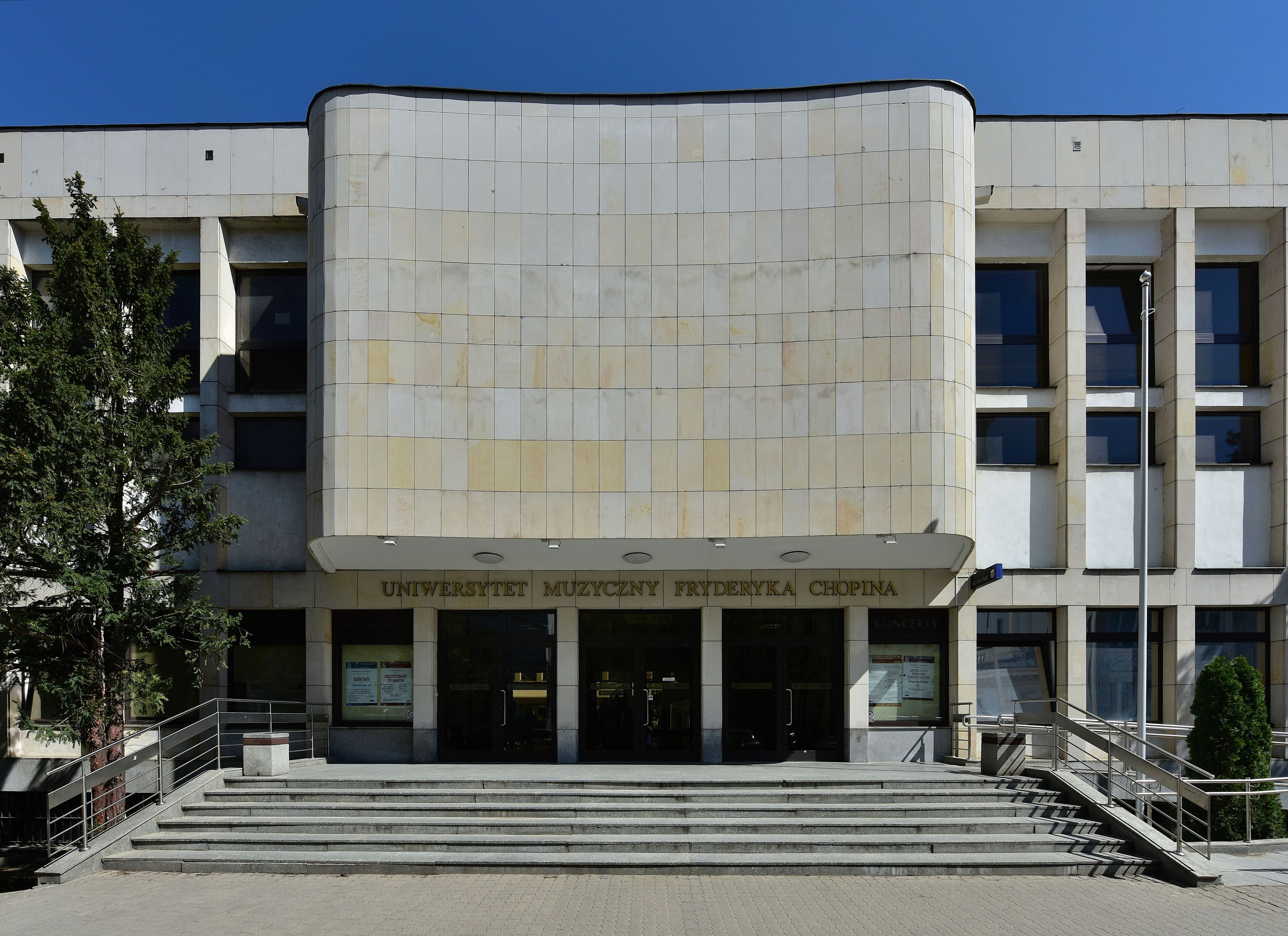 The Frederic Chopin University of Music in Warsaw. Main entrance